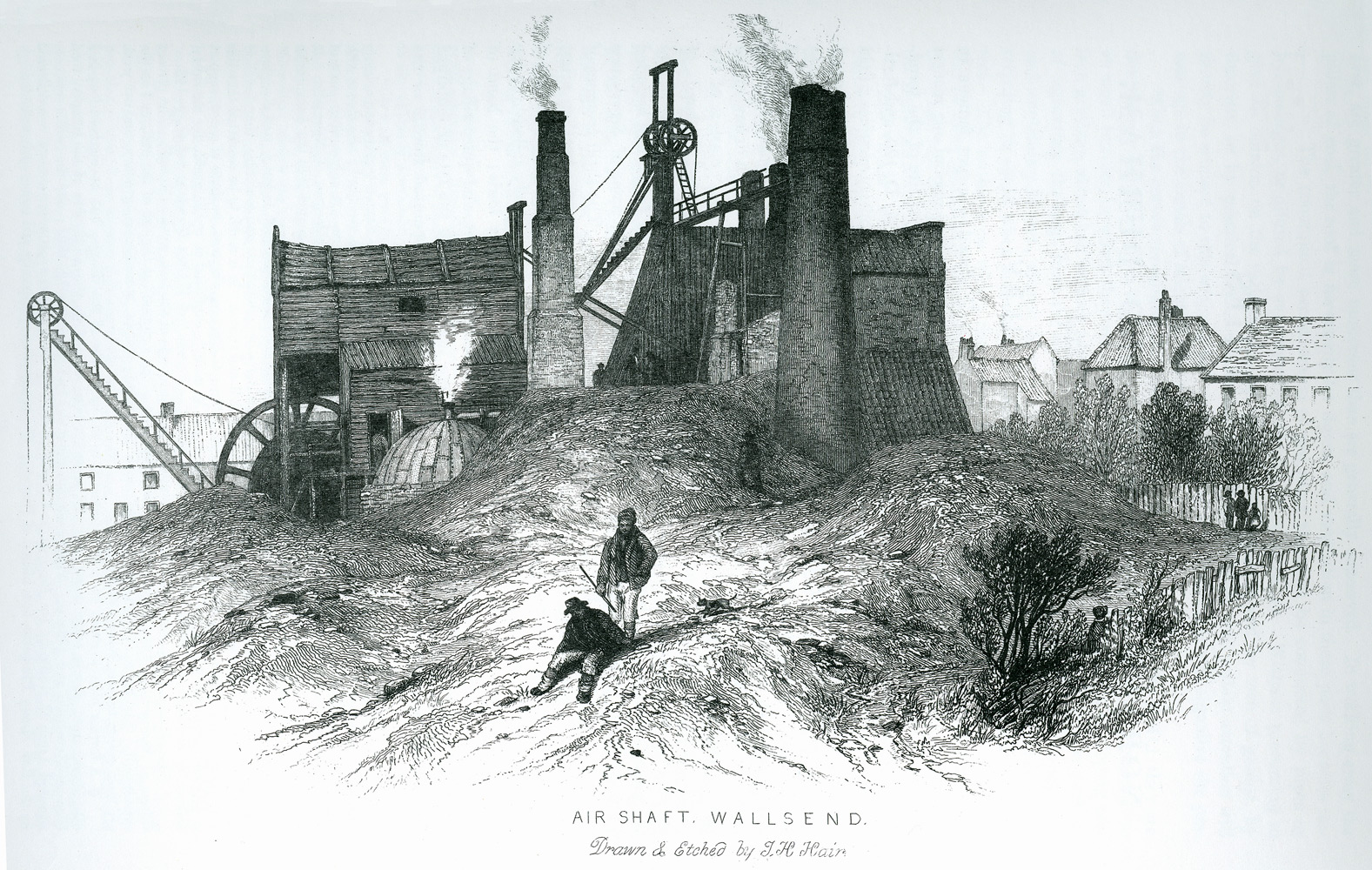 Engraving by Newcastle artist T.H. Hair (Thomas Harrison Hair) from 'A Series of Views of the Collieries in the Counties of Northumberland and Durham by T.H. Hair', published by James Madden and Co (8, Leadenhall Street, London) and T.H. Hair (18, Great Camden Street, Camden Town), 1844. Probably based on an original watercolour sketch made by Hair at the site, it depicts the air shaft and overground infrastructure of Wallsend colliery, circa 1834-1844.